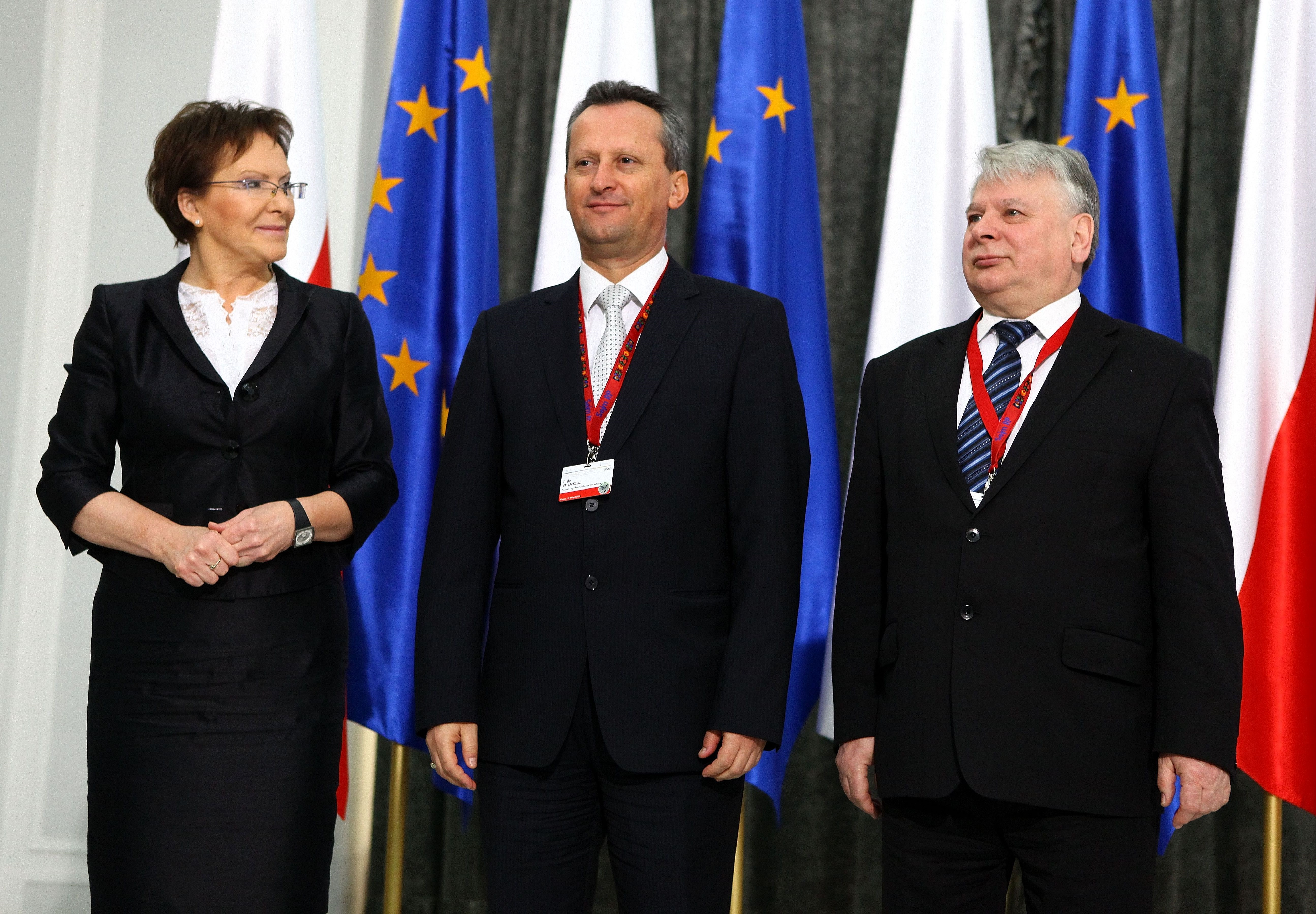 Marshal of the Sejm Ewa Kopacz, Speaker of the Assembly of the Republic of Macedonia Trajko Veljanowski and Marshal of the Senate Bogdan Borusewicz. Conference of the Speakers of EU Parliaments in Warsaw (2012)